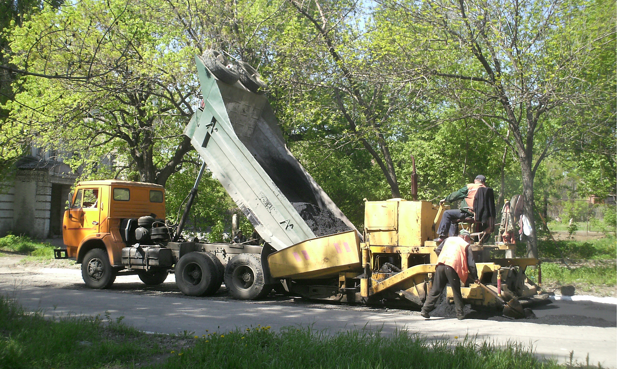 A working paver finisher in Kramatorsk.